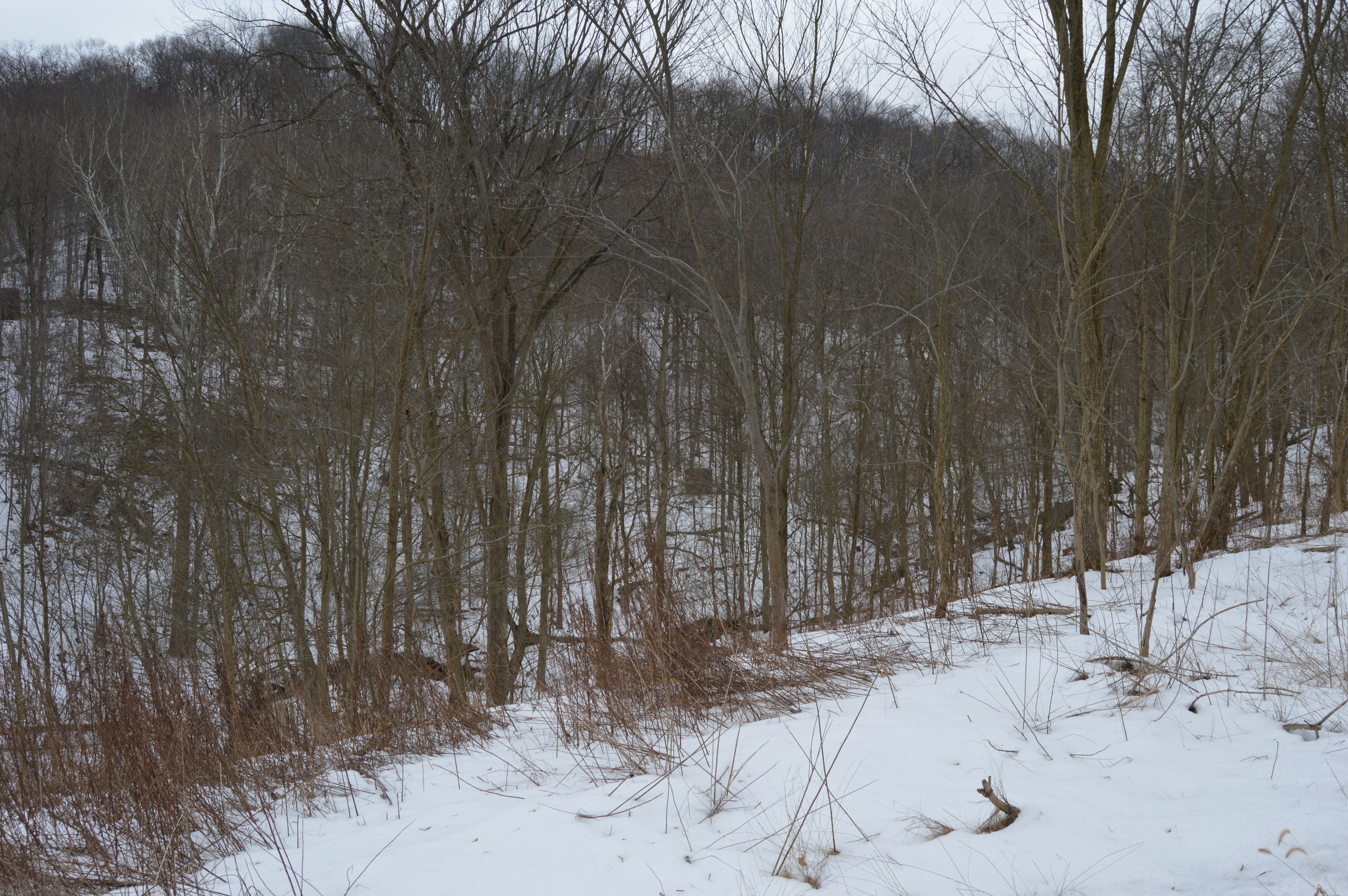 A wooded hillside on the southern corner of the intersection of Gass and Ben Avon Heights Roads in eastern Ohio Township, Allegheny County, Pennsylvania, United States.